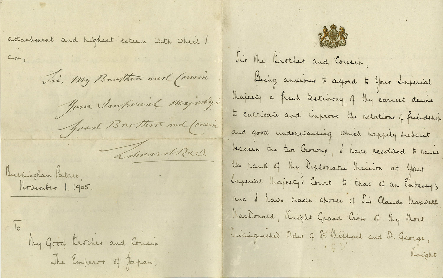 King Edward VII sent the letter of credence for Claude Maxwell MacDonald, Ambassador to Japan, to Emperor Mutsuhito on November 1, 1905.